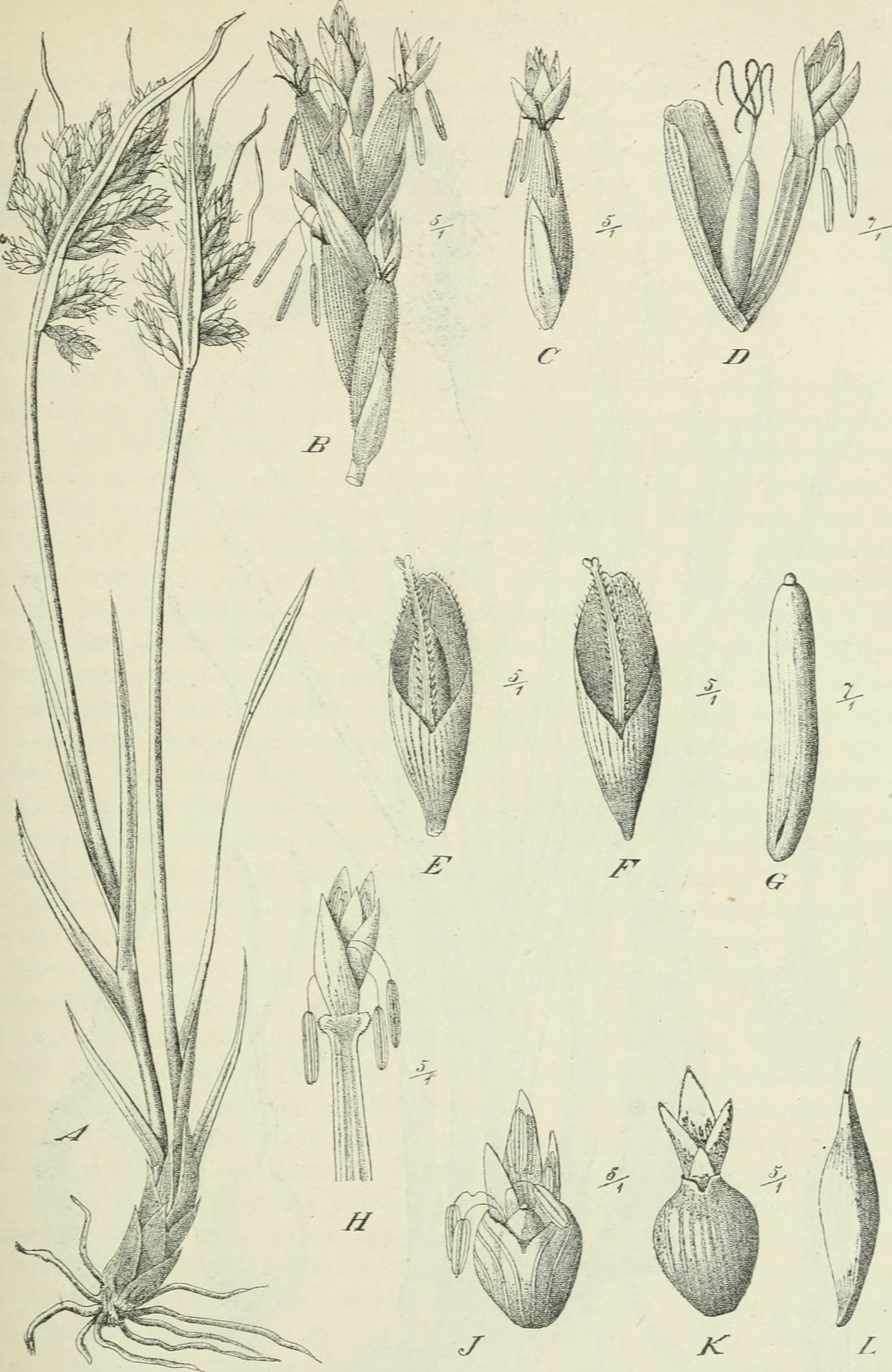 Title: Die Pflanzenwelt Afrikas, insbesondere seiner tropischen Gebiete : Grundzge der Pflanzenverbreitung im Afrika und die Charakterpflanzen Afrikas Year: 1910 (1910s) Authors: Engler, Adolf, 1844-1930 Subjects: Botany Publisher: Leipzig : W. Engelman Text Appearing Before Image: ' Text Appearing After Image: Fig. 143. Schoenoxiphium. A—D Seh. Ecklonii Nees. A Habitus; B Ähre; C Ährchen; D das- selbe ausgebreitet, die Q und die (3 Blüten an der breiten Ährchenachse zeigend. E—G Seh. capense Nees. E Ährchen mit Rudimenten der (5 Blüten; E dasselbe nach Entfernung des Nüßchens; G Nüßchen. H Seh. rufum Nees, Ährchenachse mit den (5 Blüten. J—L Seh. rufuin (Wahlenb.) Kuekenth. var. Lehmannianum (Nees). y Androgynes Ährchen; K dasselbe von hinten. L Eineeschlechtliches Ährchen mit der RhachiUa. — Nach KÜKenth.al.